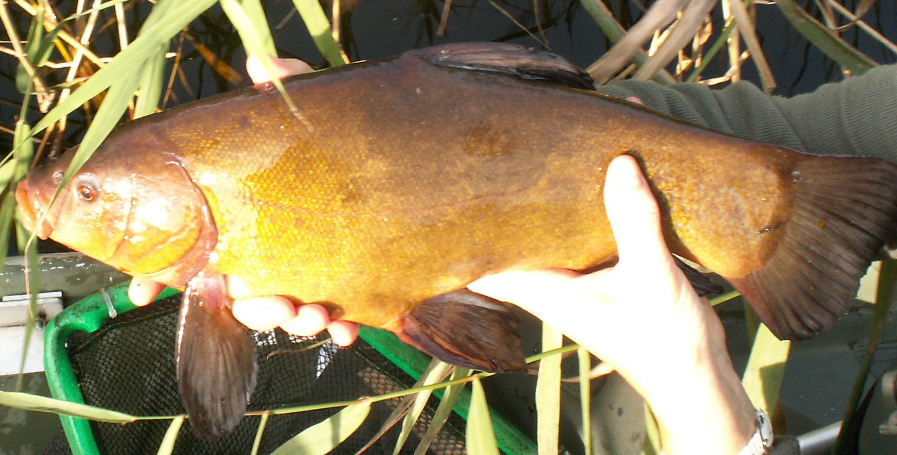 Tinca tinca, male from De Weerribben, the Netherlands